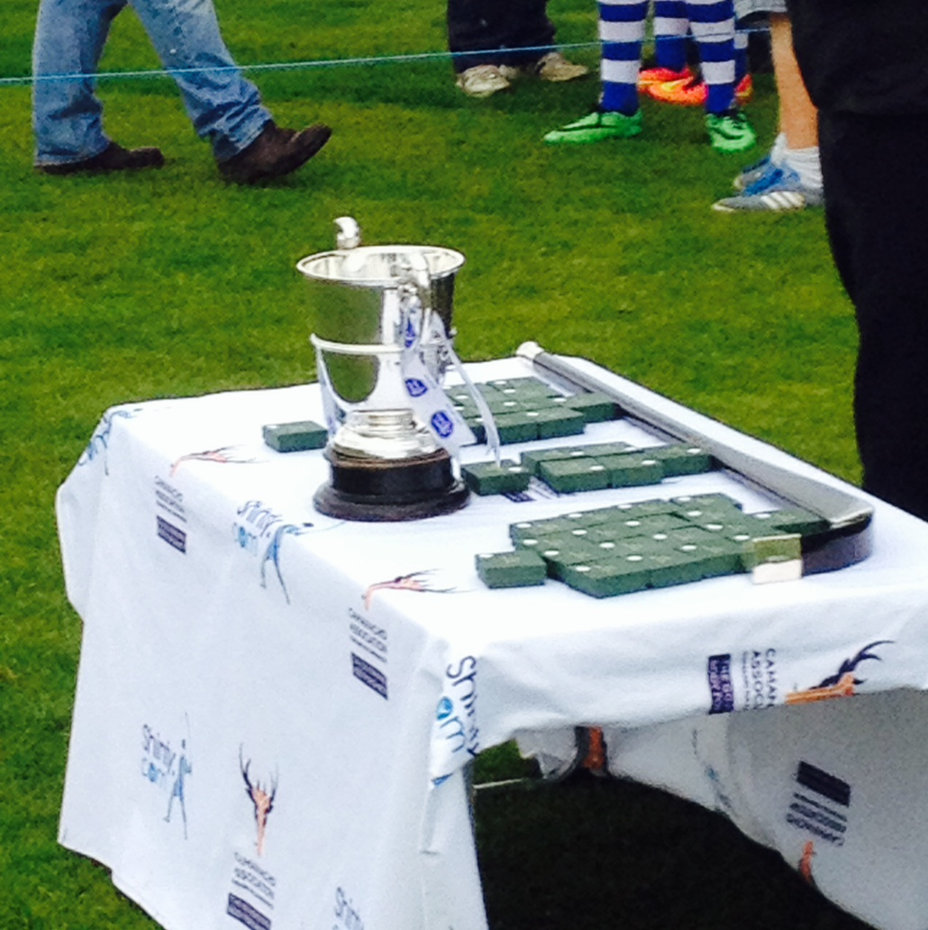 The Sir William Sutherland Cup - The Blue Riband prize in junior level Shinty, taken at the Eilan, Newtonmore